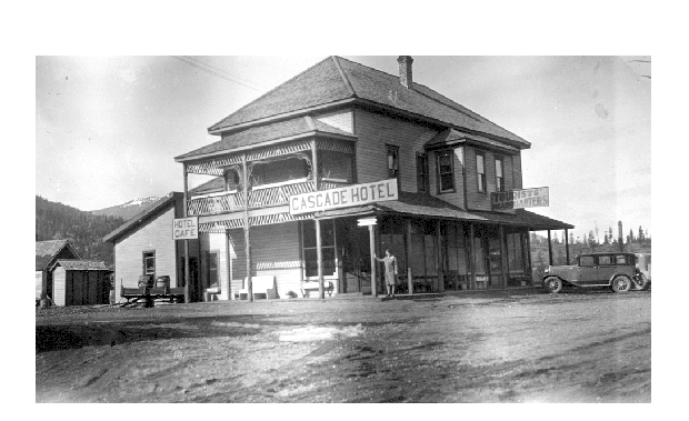 Photographer:JA Bertois Photo taken:1930 Source:BC Archives #I-60924 [1]